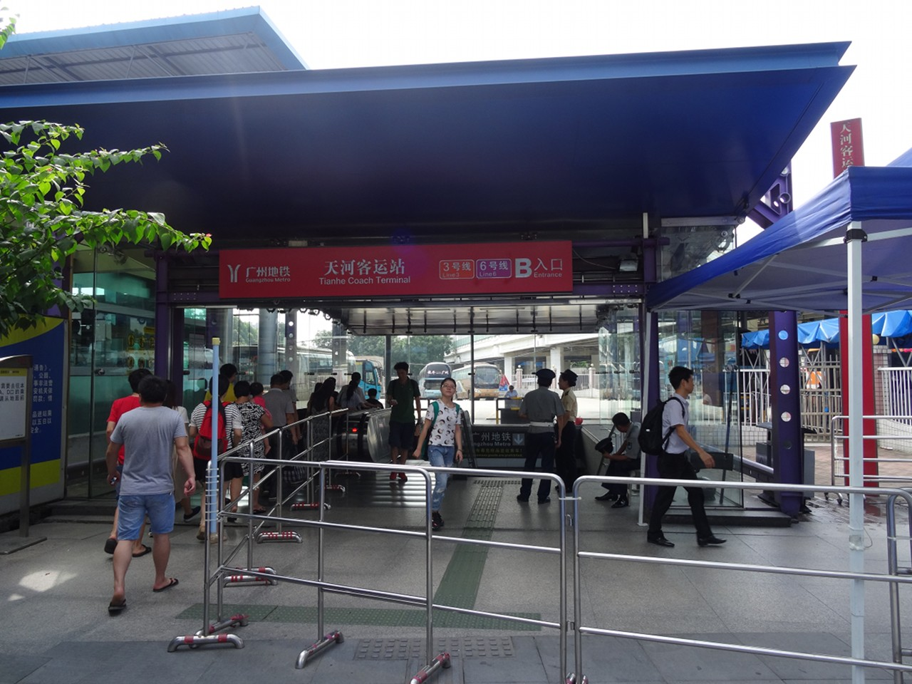 地铁天河客运站嘅B出入口